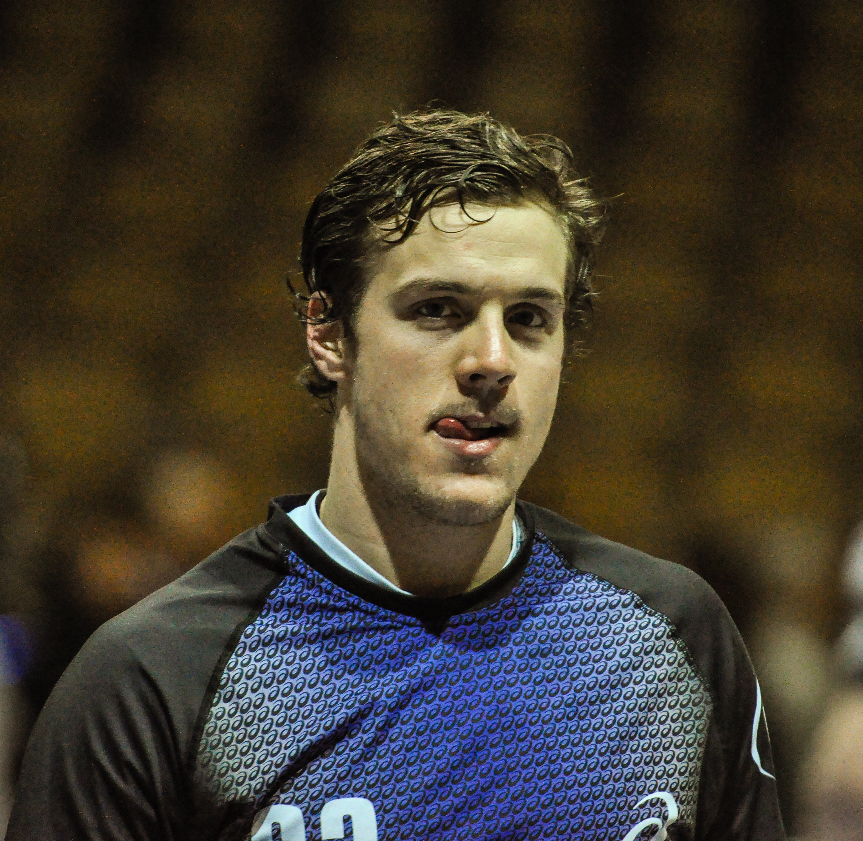 taken on February 8, 2014 during DKB Handball-Bundesliga match between HSG Wetzlar and HSV Hamburg